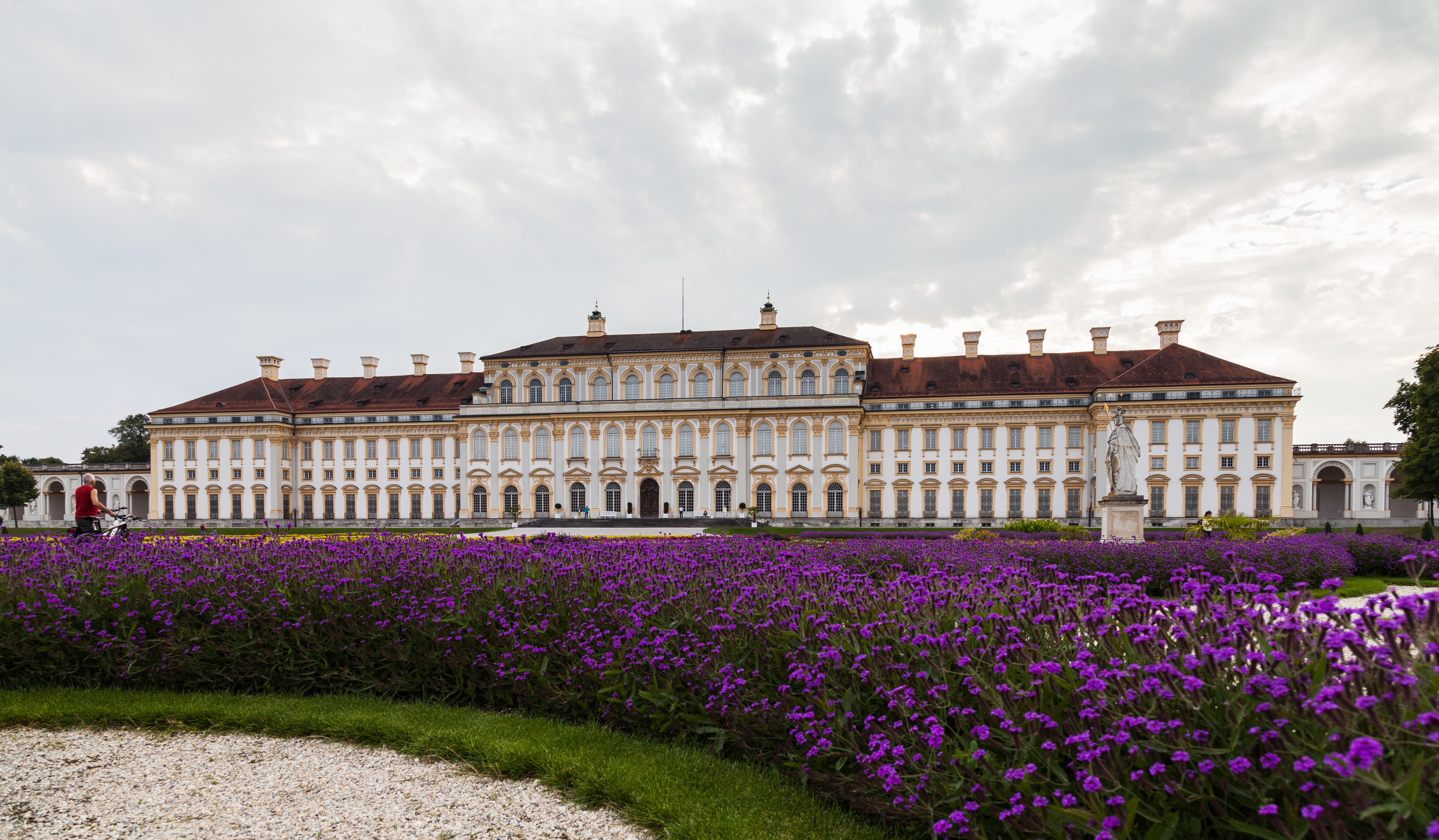 New Schleissheim Palace, Oberschleissheim, Germany This is a photograph of an architectural monument.